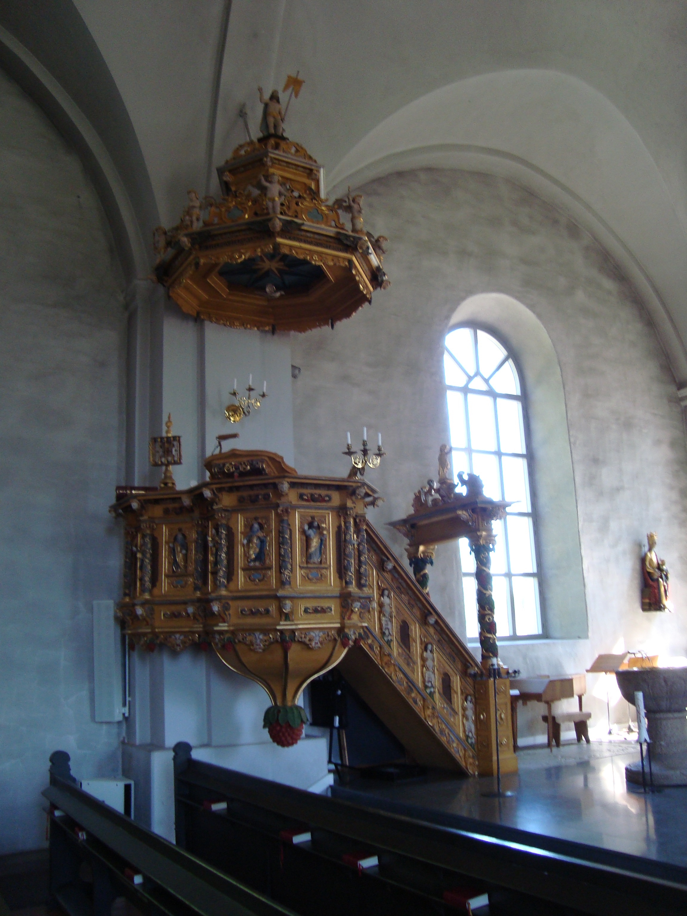 Ovansjö church, Sandviken Municipality, Sweden